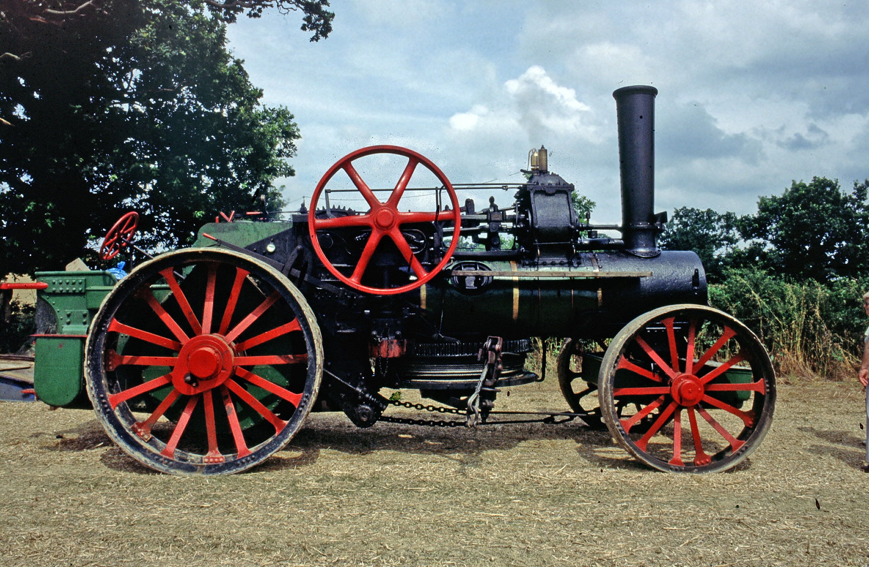 A Fowler ploughing engine at a ploughing and steam fair in Staplehurst, Kent, in the mid 1980s. Steam ploughing is accomplished with two engines either side of the field. They then winch the plough to and fro between them.